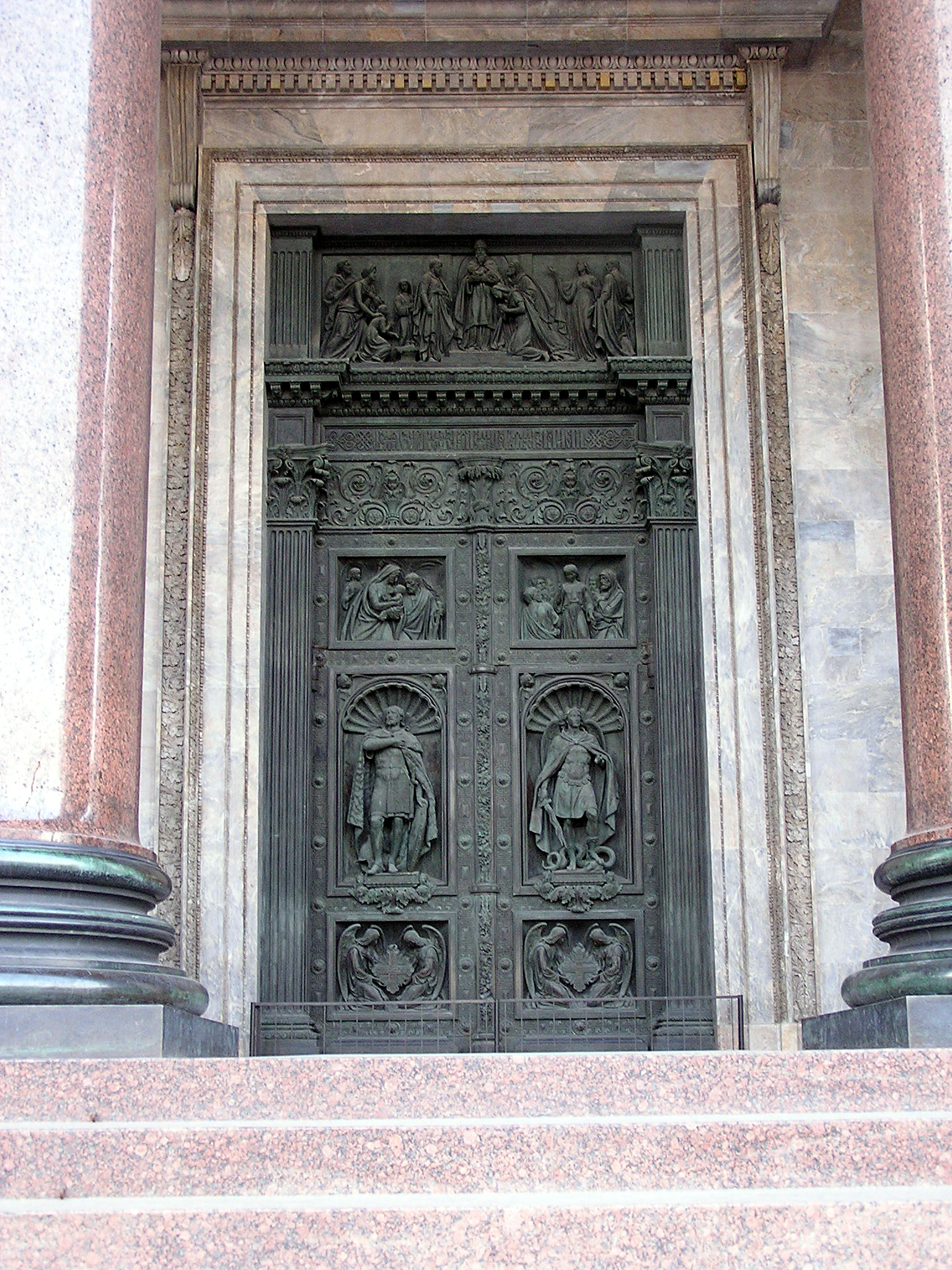 Gates of St. Isaac´s Cathedral in Saint Petersburg, Russia. Taken at sunset.